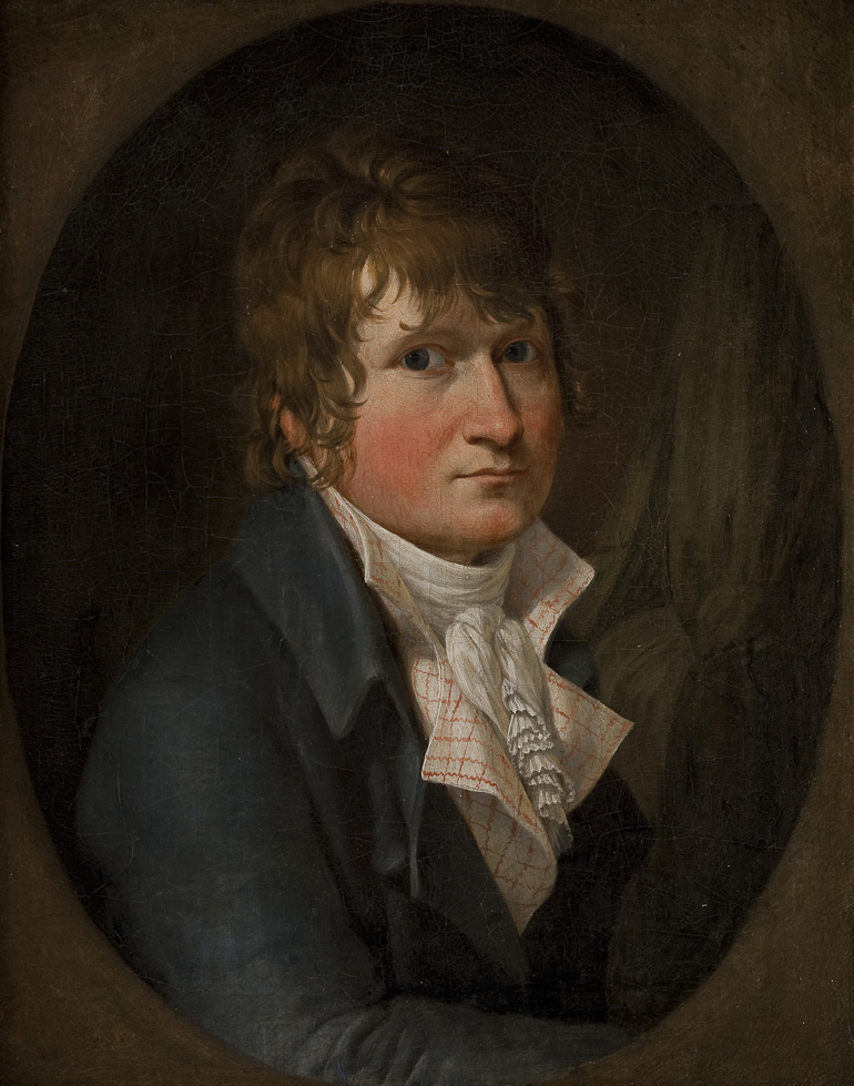 This is a photo of the original painting at category:Statens Museum for Kunst